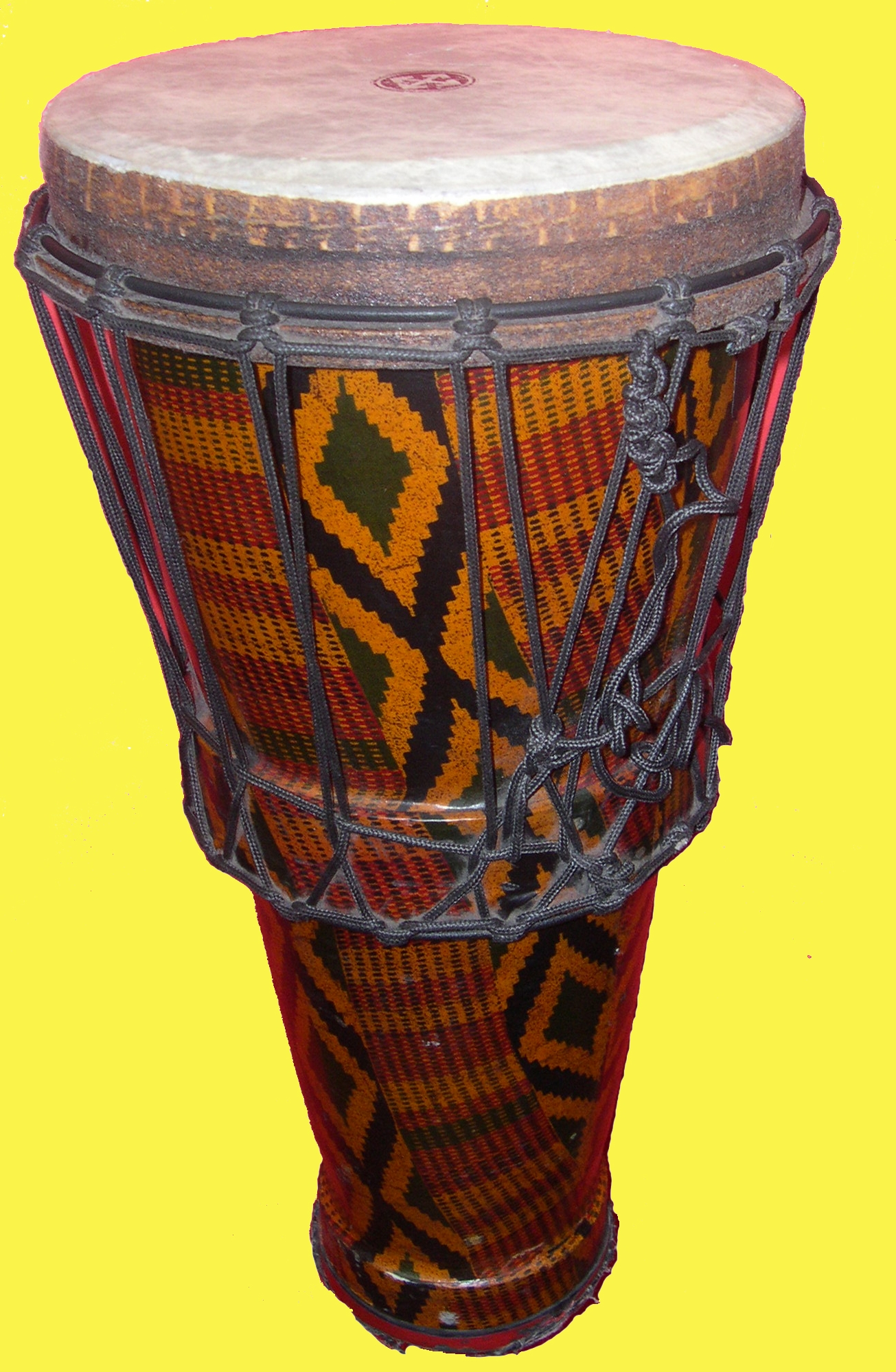 Remo Ashiko made from Plastic and Acousticon